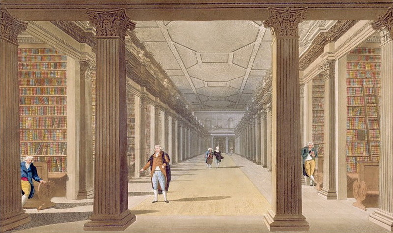 Trinity College Library: The “Long Room” in the 18th century, watercolour of James Malton.